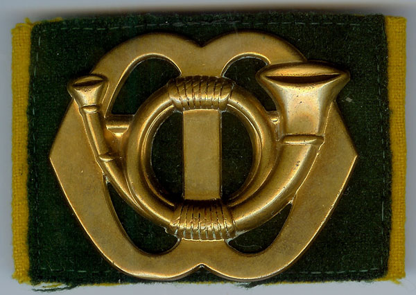 Dutch cap badge from the Rifle Guards